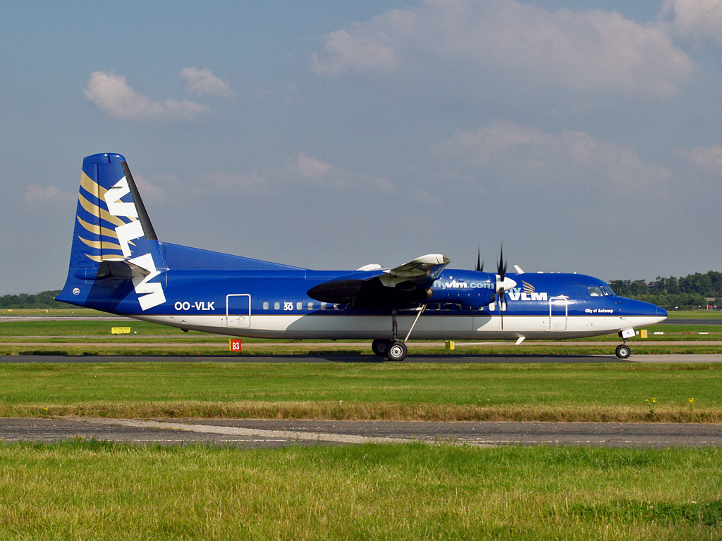 VLM Airlines (leased from Amsterdam Aircraft)(originally Austrian Airlines) OO-VLK City of Antwerp, a Fokker 50 taxies to take off from runway 05 left at Manchester Airport. Monday 28th July 2008